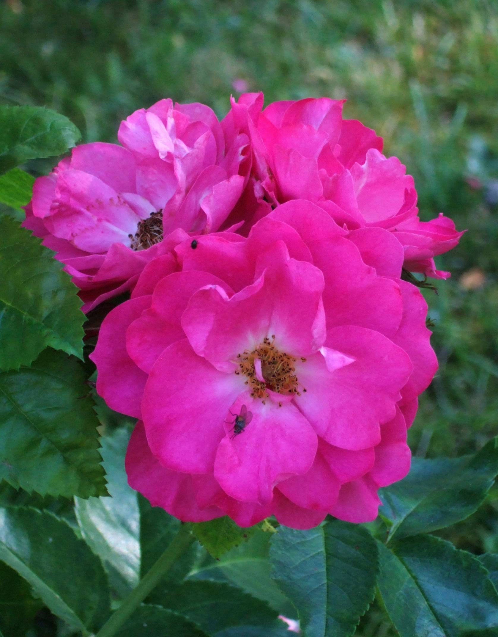 Rosa 'John Cabot'